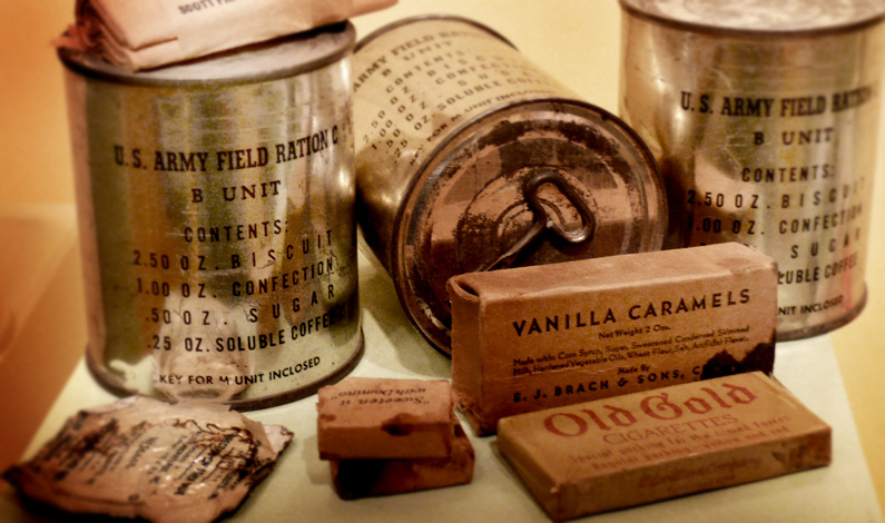 A selection of United States military C-rations from the World War II era. Photo taken at the Mesa Historical Museum, in Mesa, Arizona, United States, with a Panasonic DMC-FZ50 digital camera. The three "B-unit" cans each contain 5 biscuits, a confection, 2 cubes of sugar, a P-38 can-opener, and instant coffee. The entire collection was donated to the Mesa Historical Museum by one man.